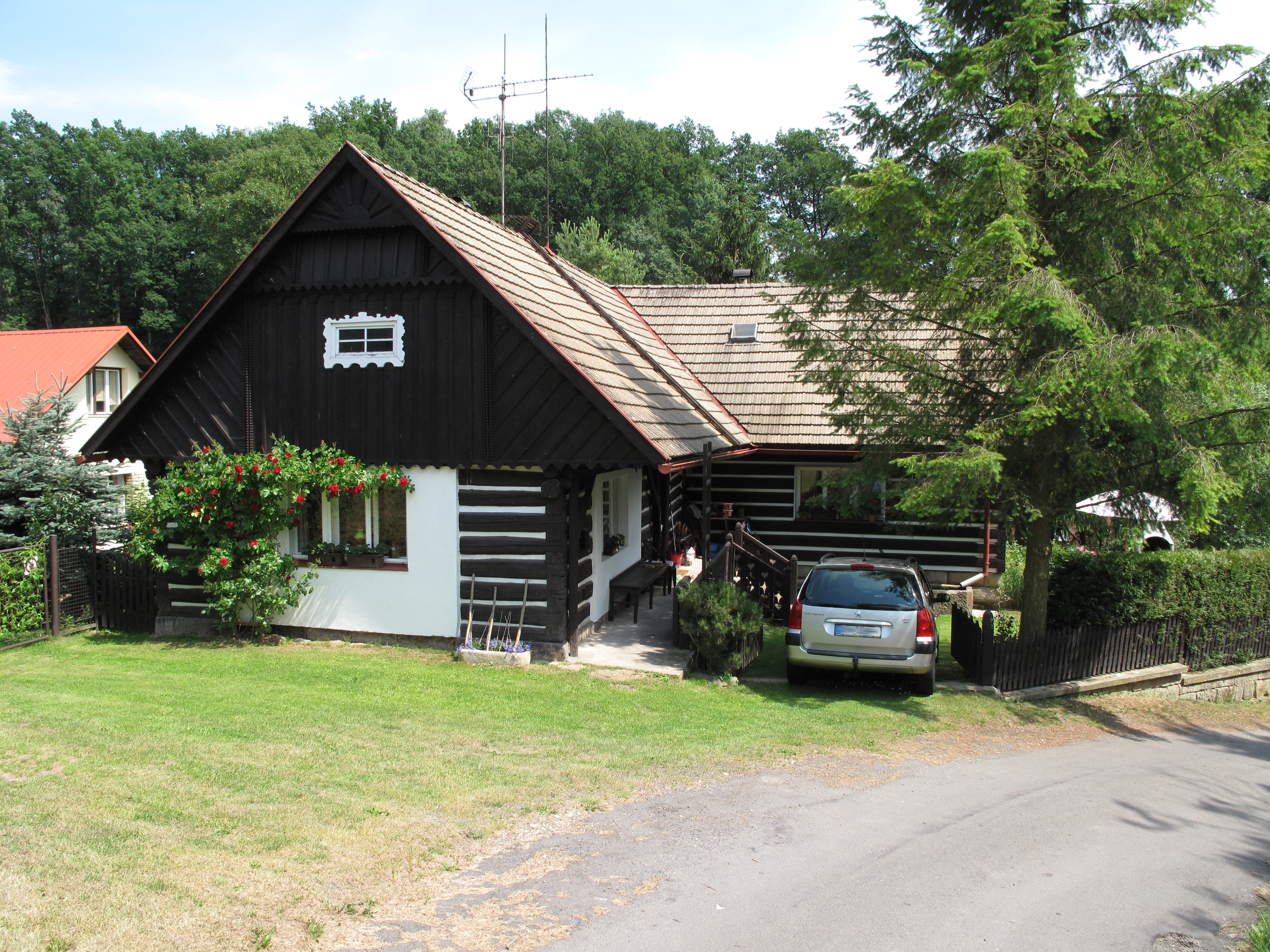 Log cabin in Roudný village (Karlovice municipality), Semily District, Czech Republic.